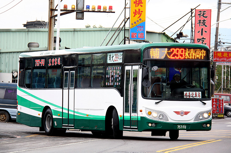 SanchungBus 299 757-FU Hino RK8JRSA